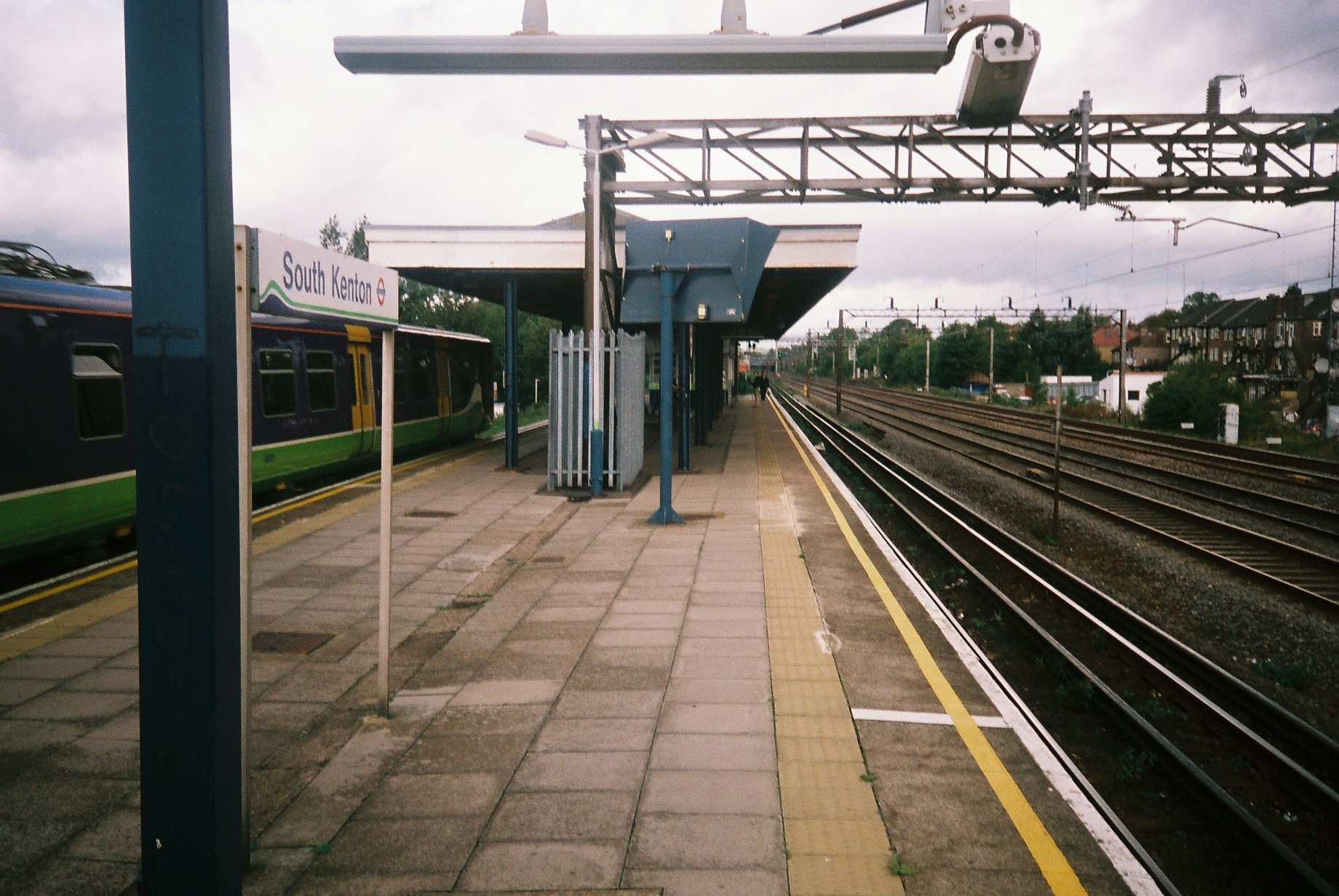 South Kenton station